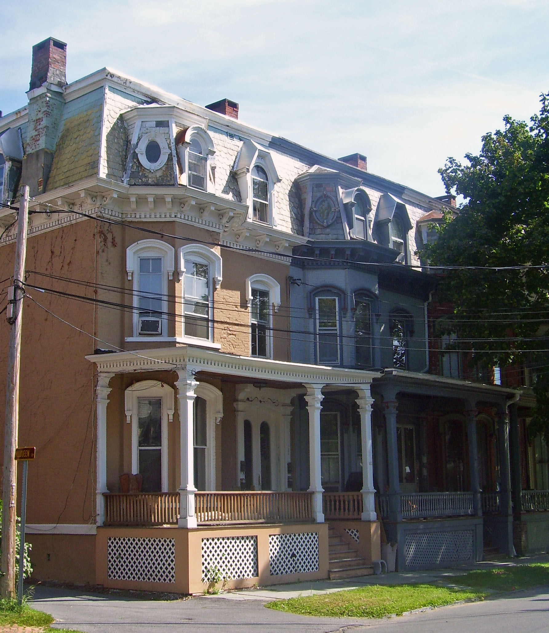 Rowhouses in the Second Empire style, at the intersection of Regent Street and Mulqueen Lane in the East Side Historic District, Saratoga Springs, NY, USA